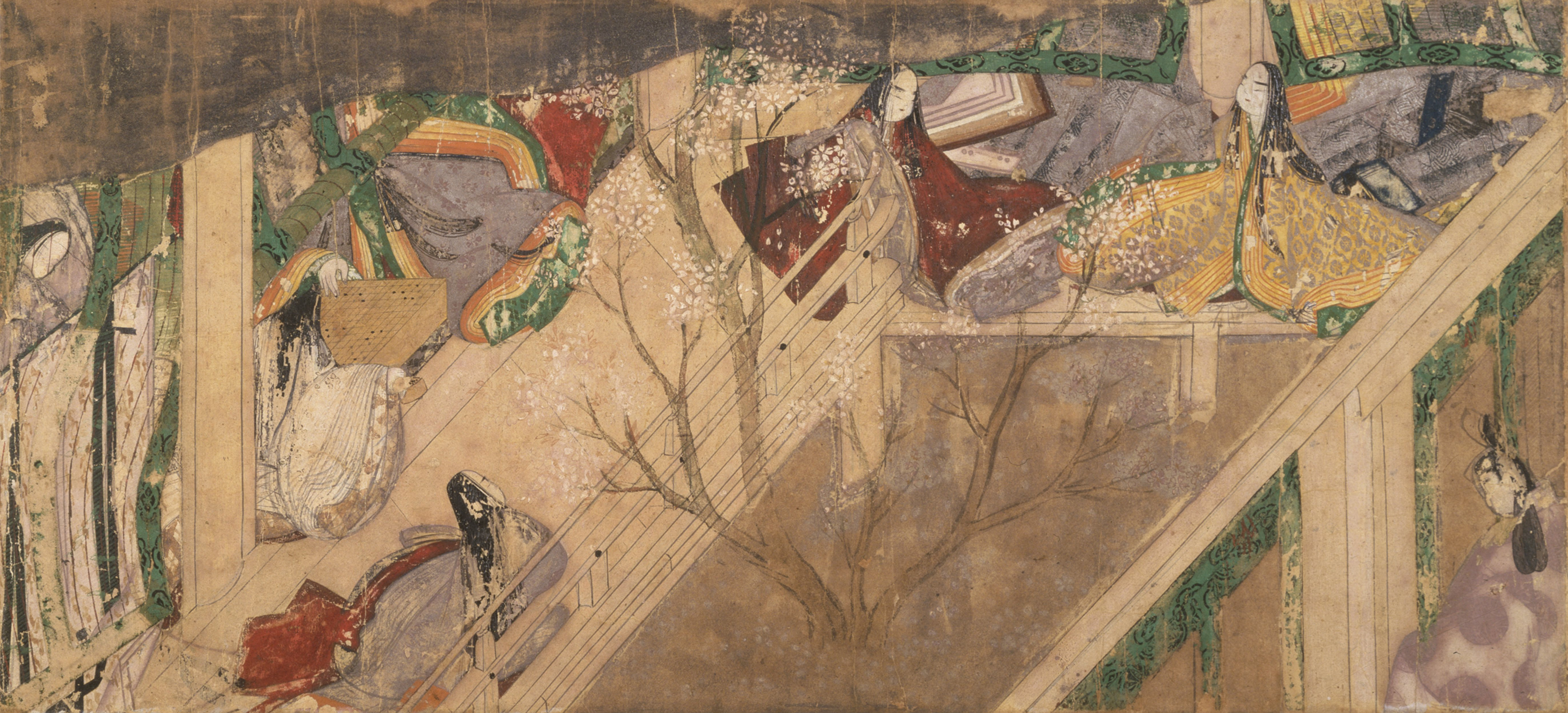 A scene of the Chapter "TAKEKAWA "(Bamboo River) of Illustrated handscroll of Tale of Genji (written by MURASAKI SHIKIBU(11th cent.). color on paper, height 21.8cm, The handscroll was made in about ACE1130 and stored in TOKUGAWA Museum, Japan. The handscroll were separated to each sections and mounted to frame for conservation.